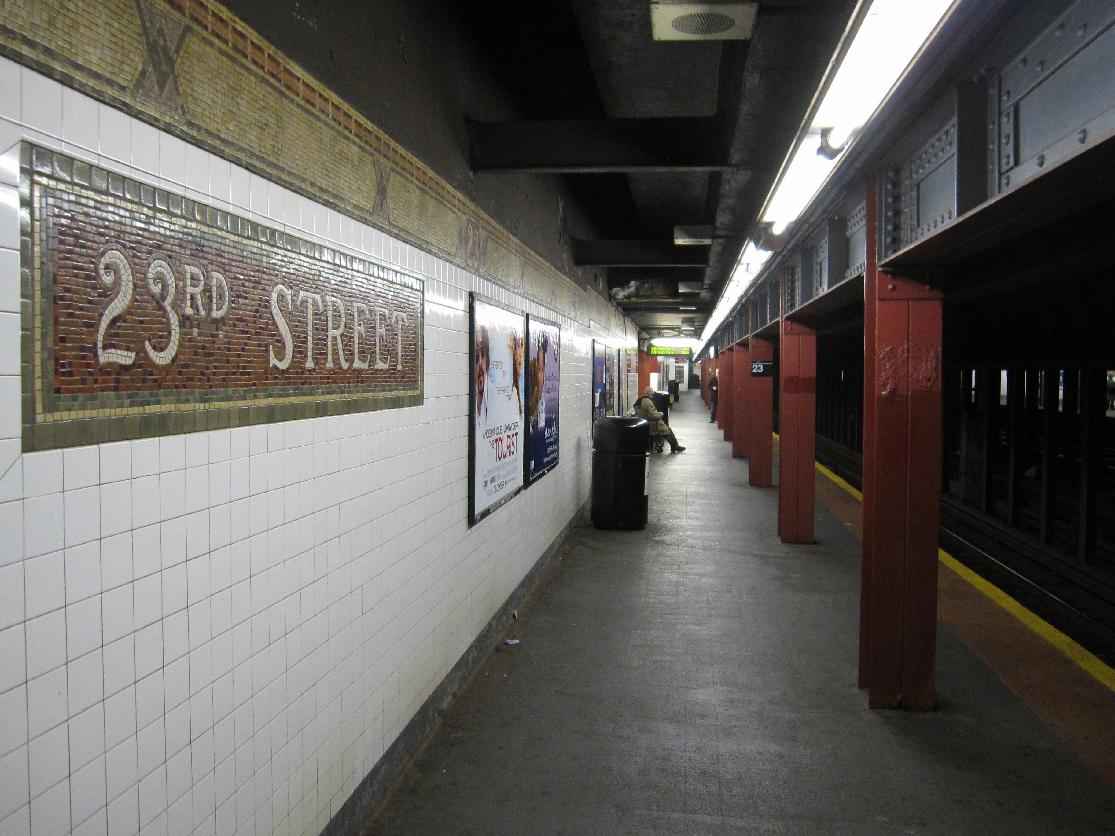 23rd Street IRT Broadway–Seventh Avenue